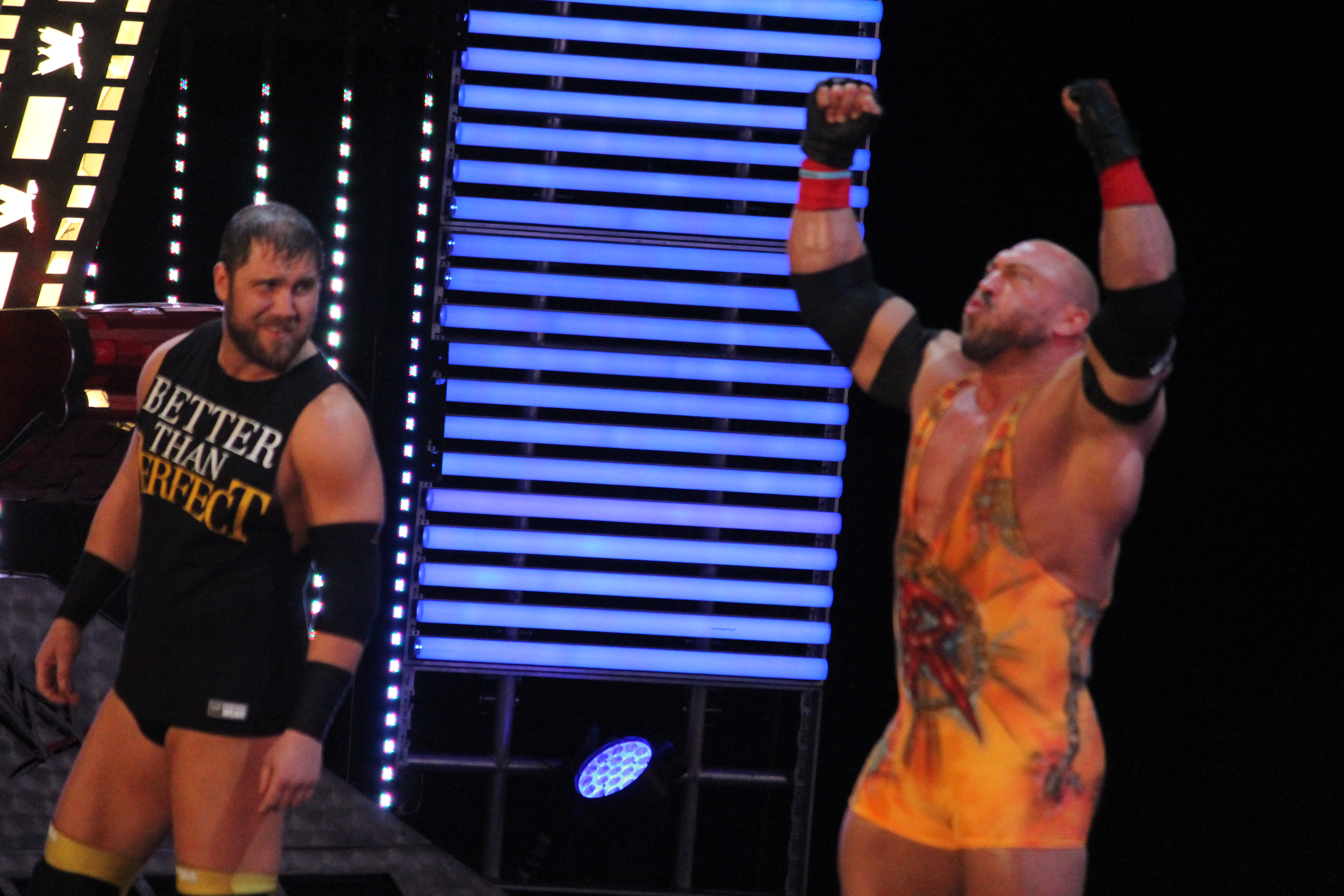 Curtis Axel (left) and Ryback at the post-WrestleMania Raw on 7 April 2014 in New Orleans, Louisiana.